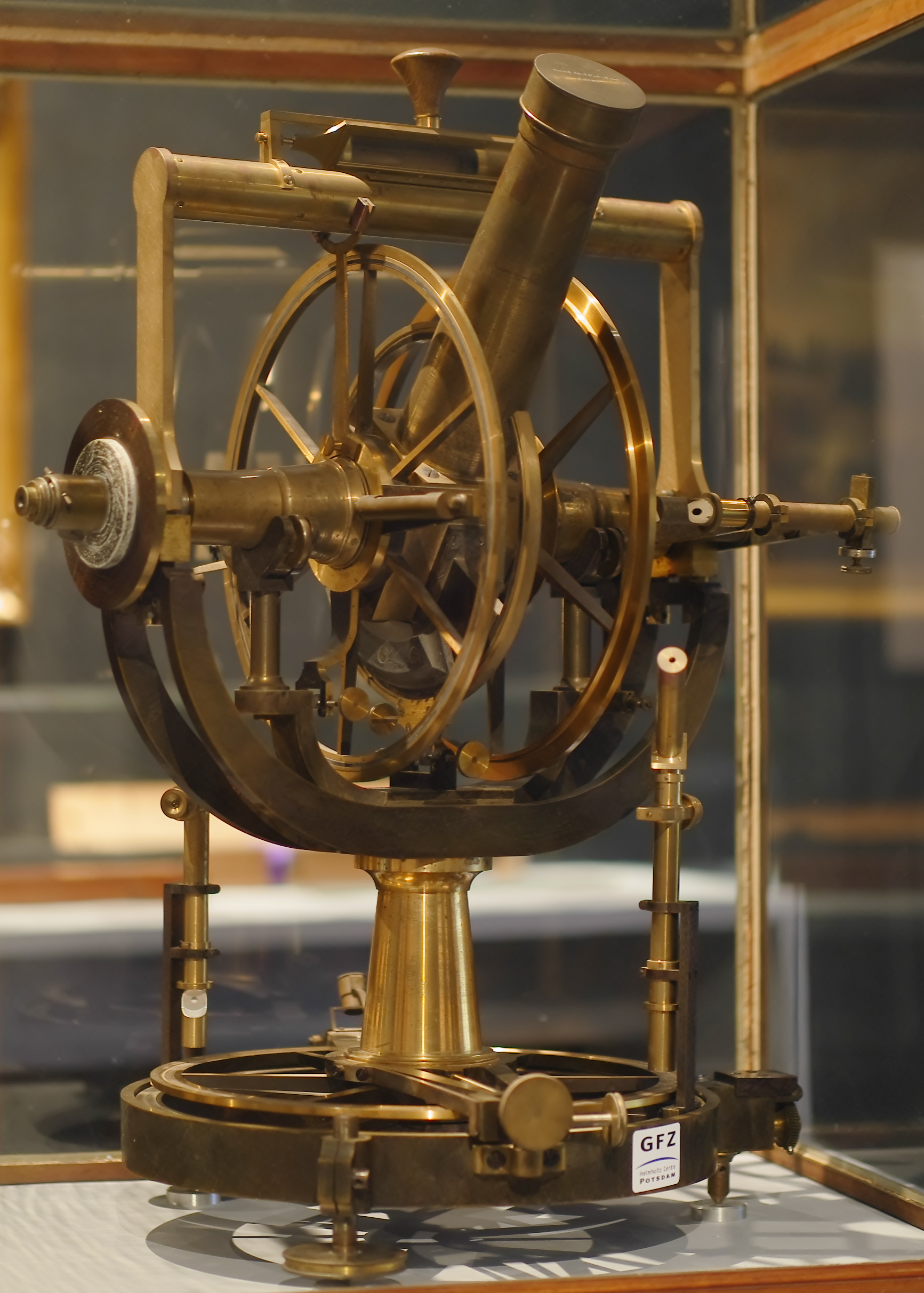 Historic universal theodolite Pistor & Martins manufactured in Berlin (1851), exposed 2017 at an exposition of GeoForschungsZentrum Potsdam. Taken free-hand with polarising filter.